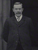 Photograph of William Adamson. File is a cropped version of an original photograph of William Adamson, Keir Hardie, and Thomas Richardson.